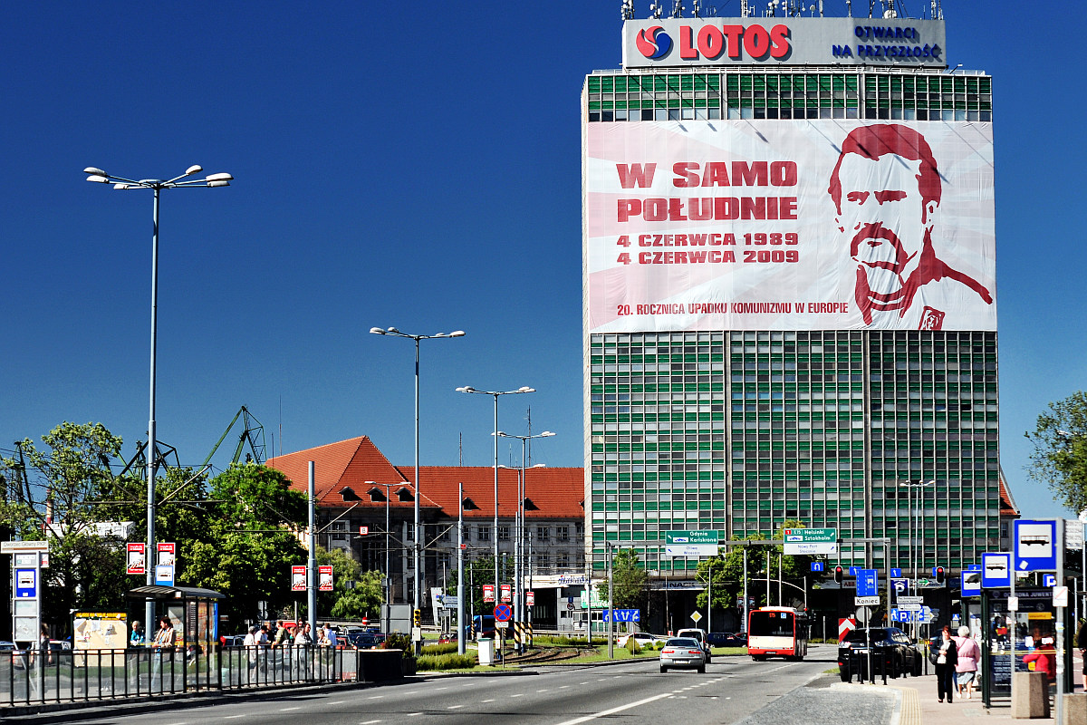 Office building "Zieleniak" in Gdansk (Poland) decorated for the 20th anniversary of the end of communism in Poland on June 4, 2009. The poster depicts Lech Walesa and references the American film "High Noon".